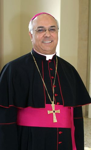 SER Mons. VIncenzo Bertolone